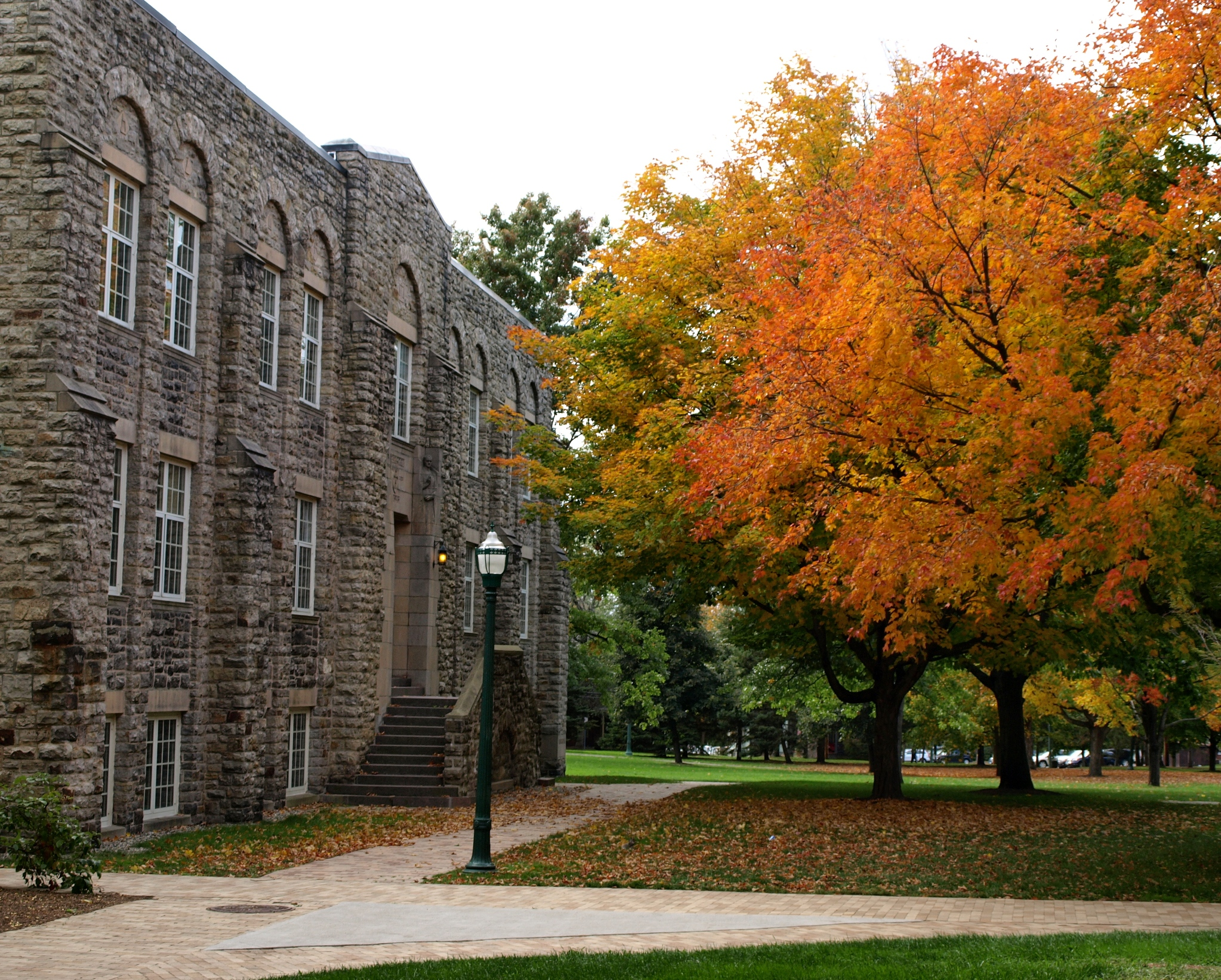 Structure on the campus of St. Lawrence University